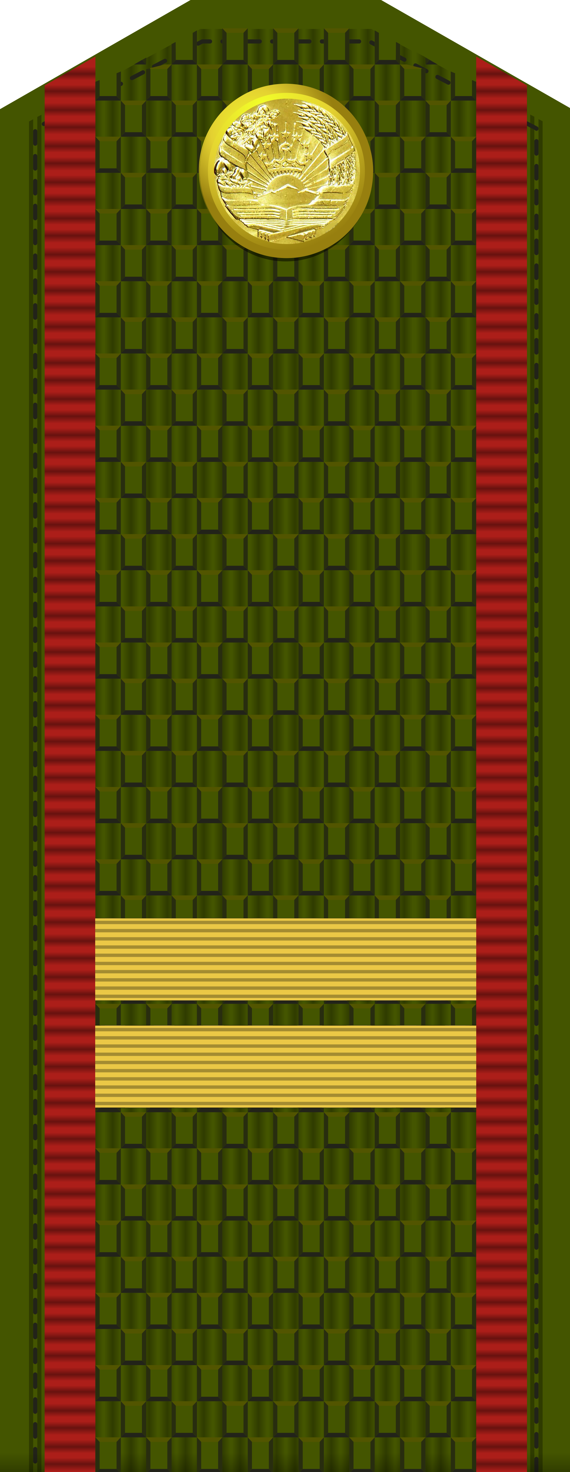 Тоҷикӣ: Rank insignia of Junior Sergeant for the Tajikistan Army